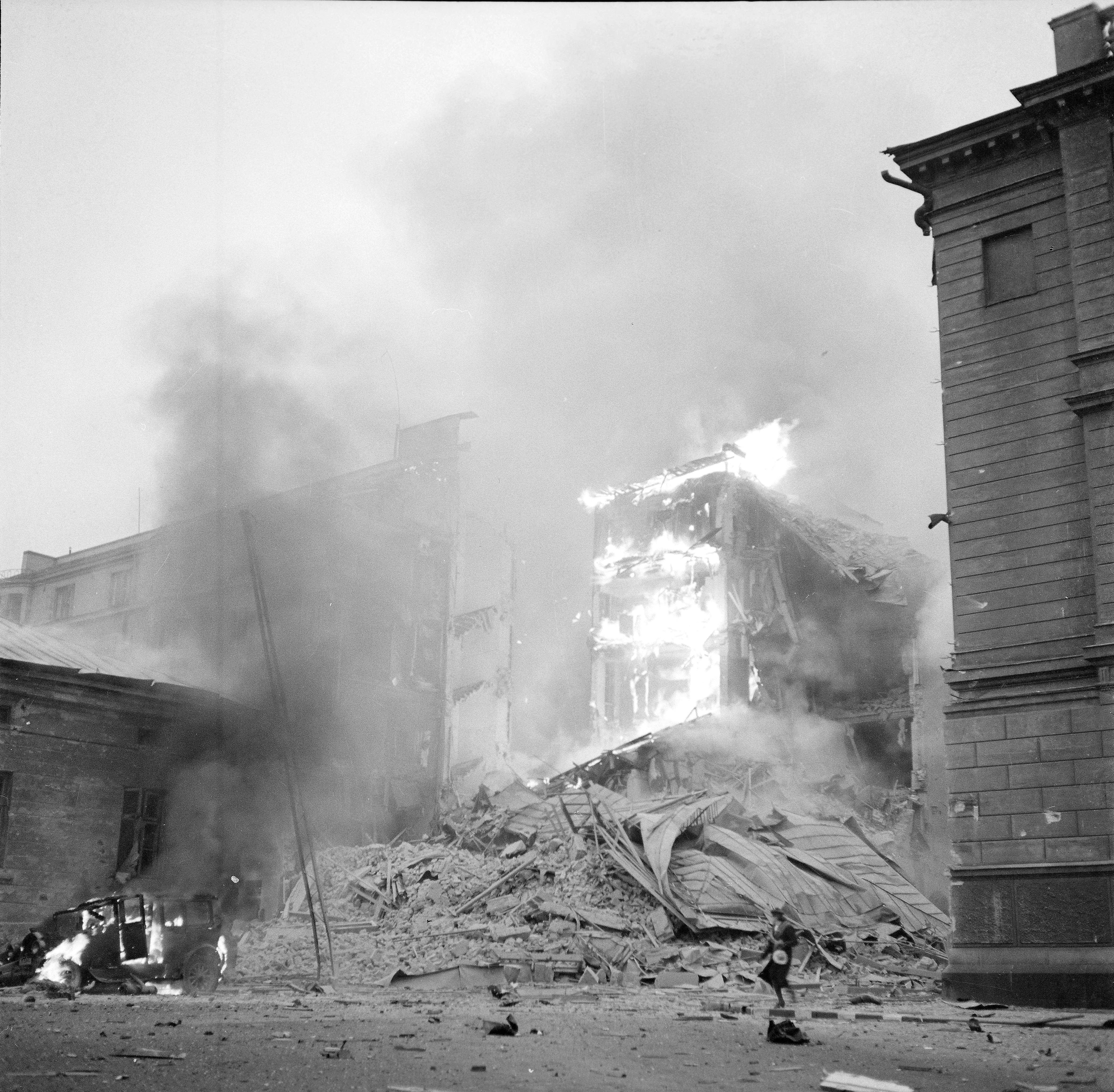 Fire at the corner of Lönnrot and Abraham Streets after the first bombing of Helsinki during the Winter War. On the right, the Helsinki University of Technology.